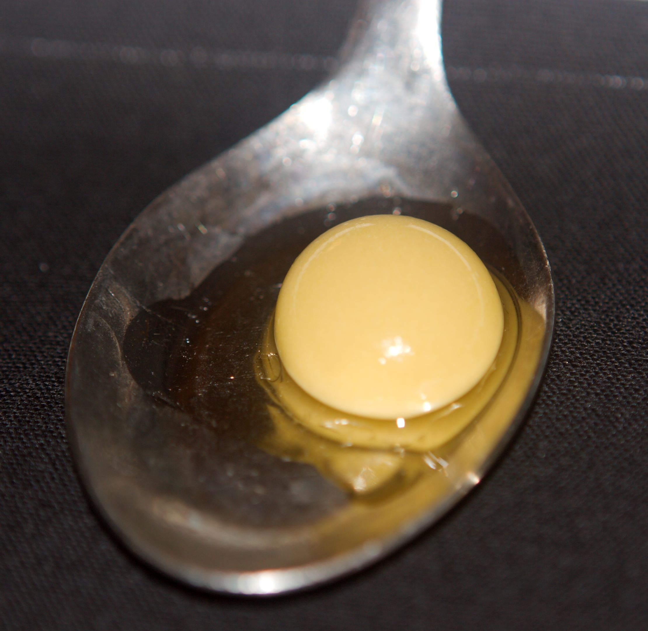 A sample of Ferran Adrià's liquid olives, from the restaurant at the Casino de Madrid.